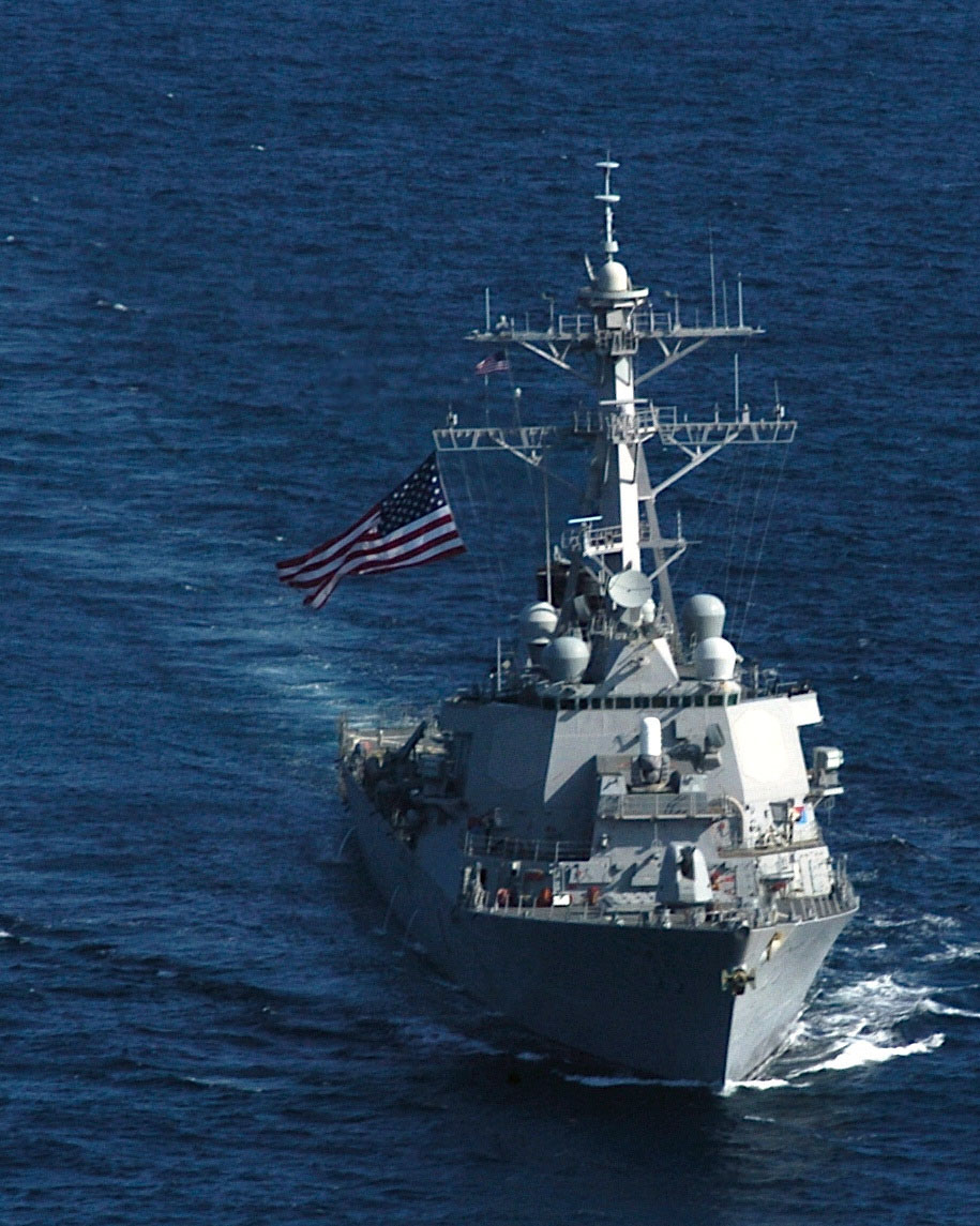 South China Sea (Oct. 20, 2006) – Guided-missile destroyer USS Stethem (DDG 63) sails in a combined formation during an amphibious exercise with Essex Amphibious Ready Group comprised of the amphibious assault ship USS Essex (LHD 2), dock landing ship USS Harpers Ferry (LSD 49), and amphibious transport dock USS Juneau (LPD 9) along with the Philippine navy ship Artermio Ricarte (PS 37). Essex and the 31st Marine Expeditionary Unit (MEU) are in the Philippines participating in bilateral exercises, Exercise Talon Vision (TV 07) and Amphibious Landing Exercise (PHIBLEX 07), with the Armed Forces of the Philippines (AFR). Essex is the Navy’s only forward-deployed amphibious assault ship and is the flagship for the Essex Amphibious Ready Group based in Sasebo, Japan. U. S. Navy photo by Mass Communication Specialist 1st Class Michael D. Kennedy (RELEASED)